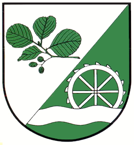 Coat of arms of the municipality Elsdorf-Westermühlen in Schleswig-Holstein, Germany.